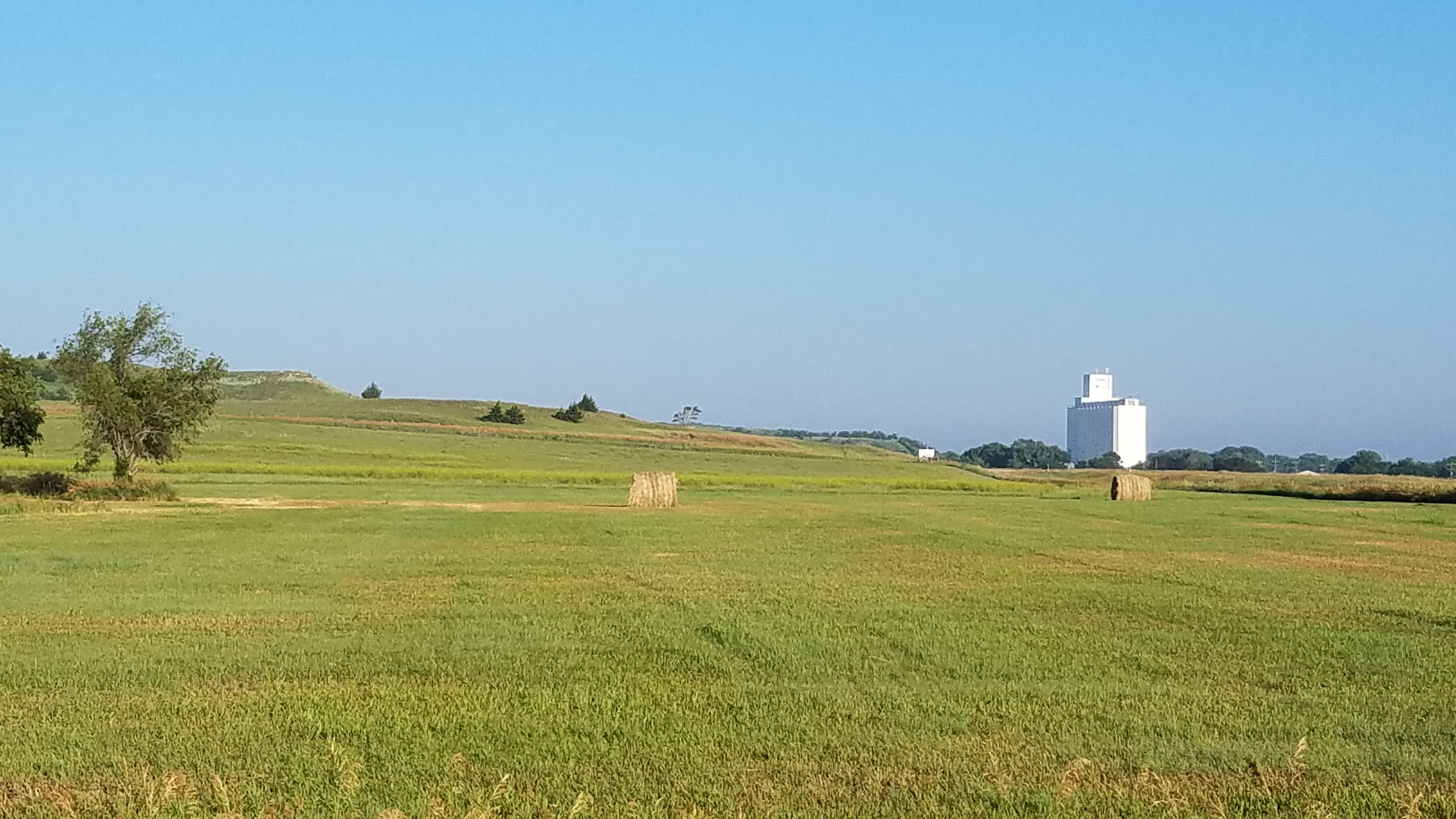 2016 Reenactment of the Alexander Gardner photograph of the future Yocemento, Kansas village site.